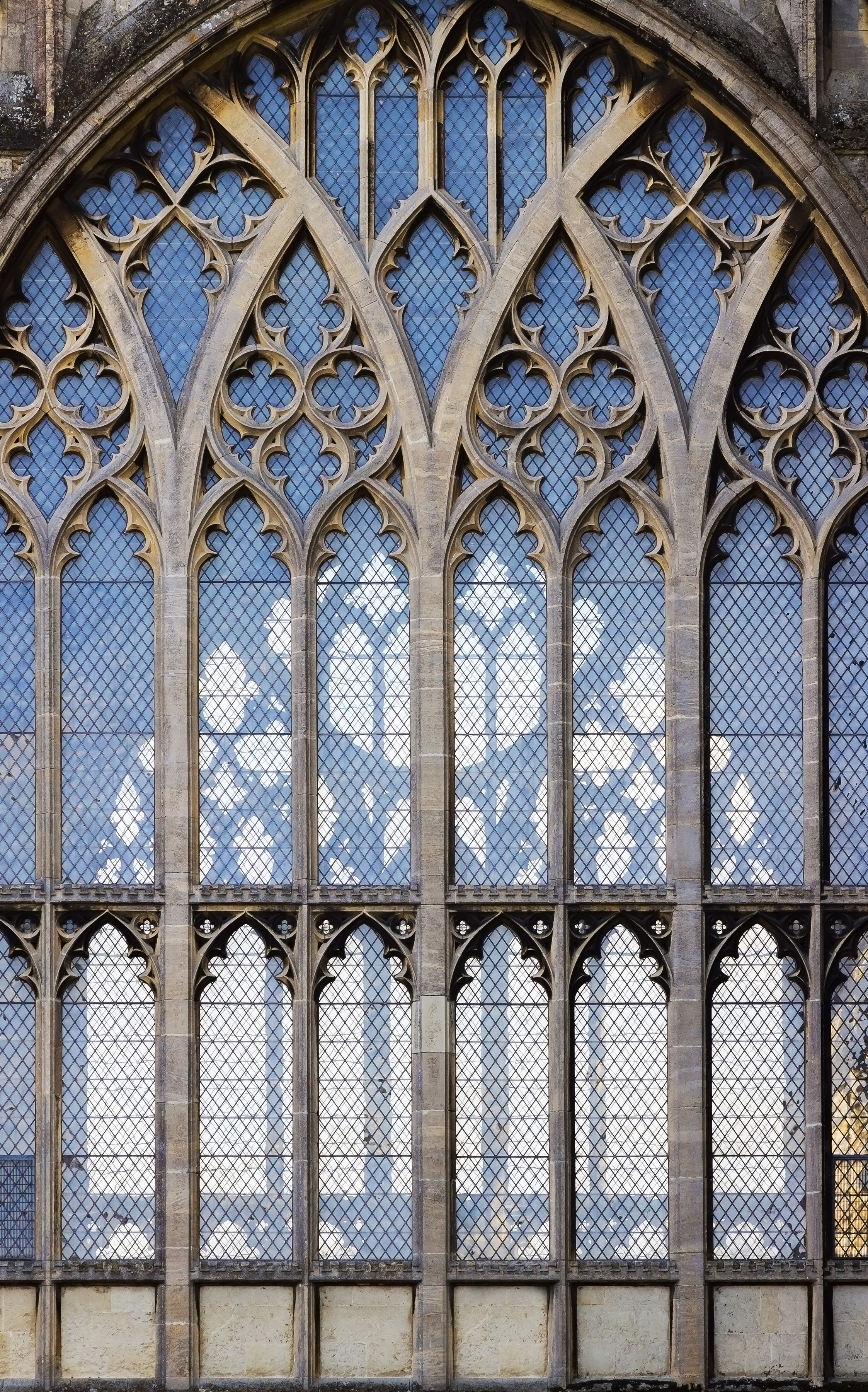 A window of Ely Cathedral